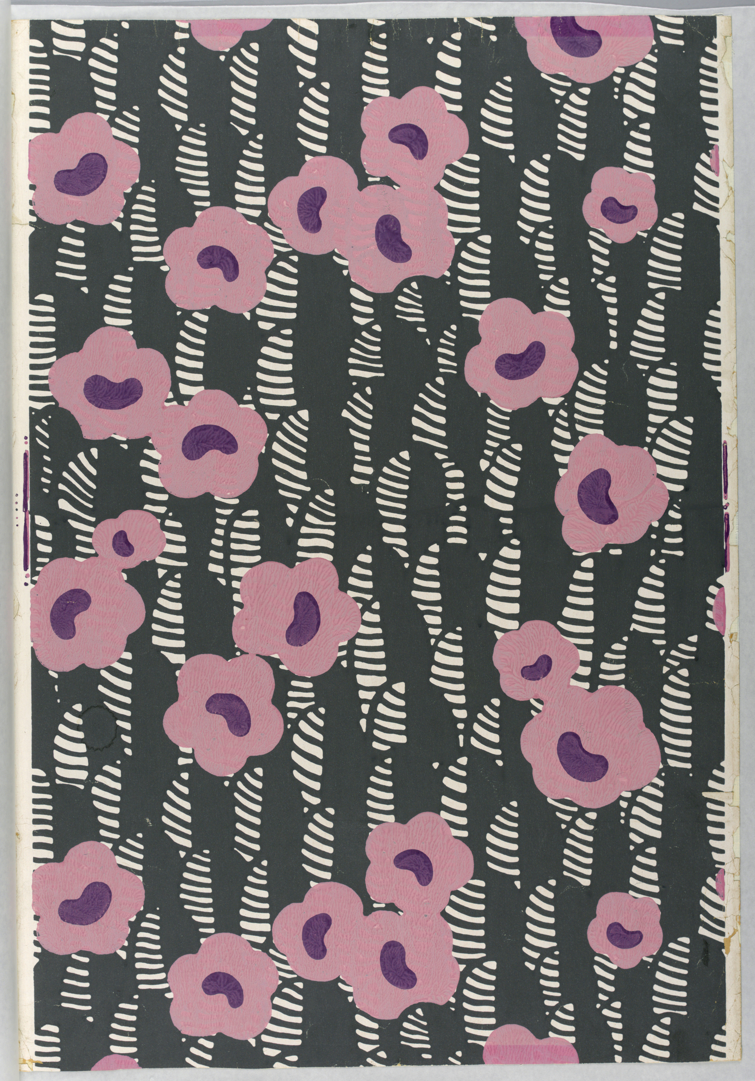 Printed for Nancy McClelland of New York City. A highly stylized design of single five to six petalled flowers in pink with mauve centers. Leaves are gray and white horizontal stripes. Printed in pink, mauve and white on slate gray field.